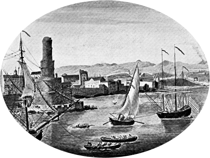 Old Port Royal - Project Gutenberg eText 19396.jpg From The Project Gutenberg EBook of On the Spanish Main, by John Masefield From *Port Royal ==